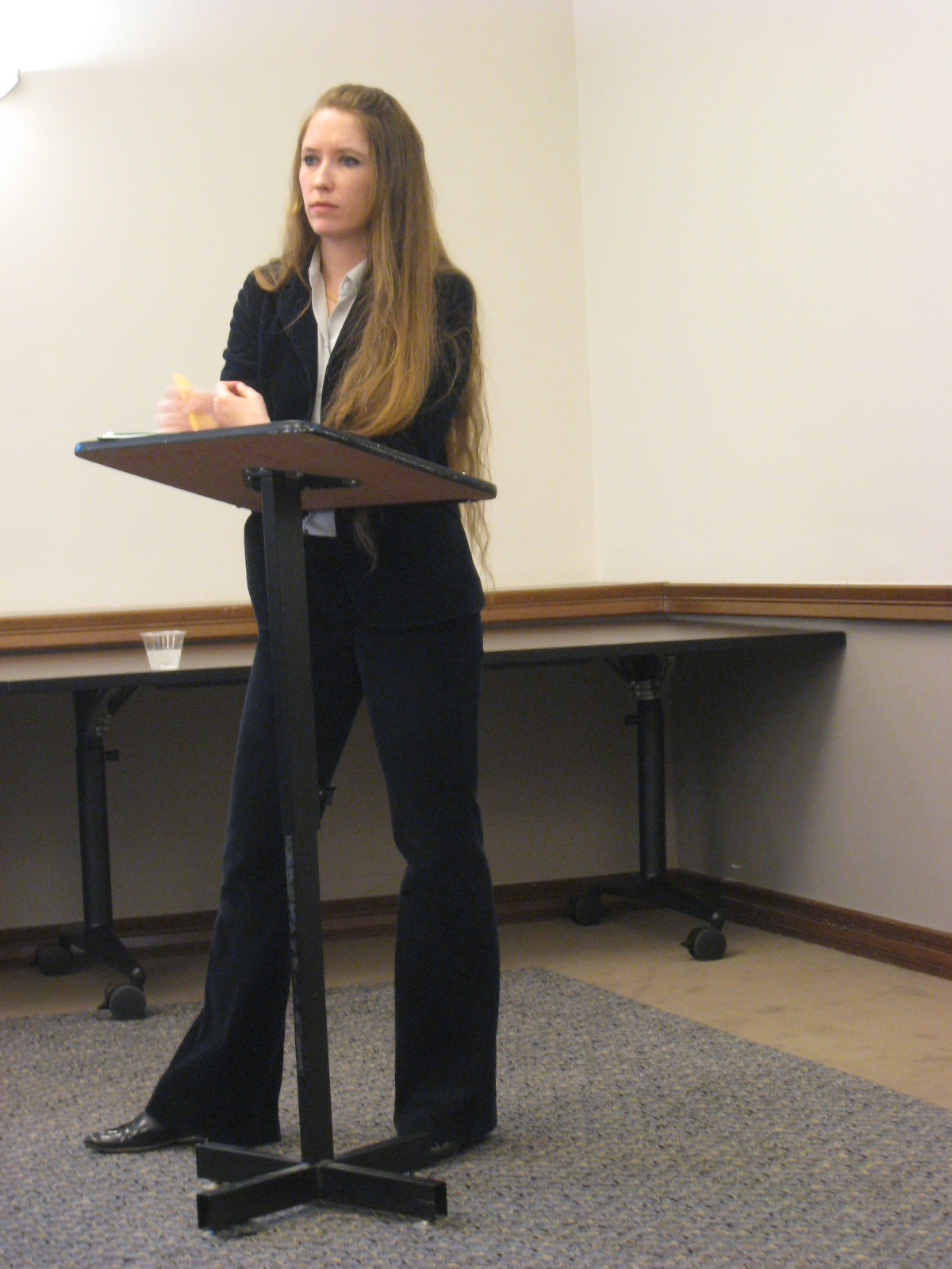 Professor Hillary Chute giving a lecture at Columbia University in New York City.